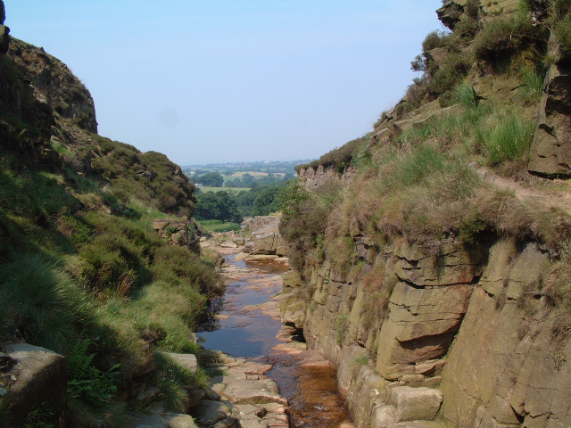 Dean Brook - White Coppice Geology Trail. Fault lines are clearly visible in the millstone grit rocks on this deeply cut section of Dean brook. The view is west towards the village of White Coppice which lies on the Brinscall Fault on the western edge of the Rossendale anticline.197182